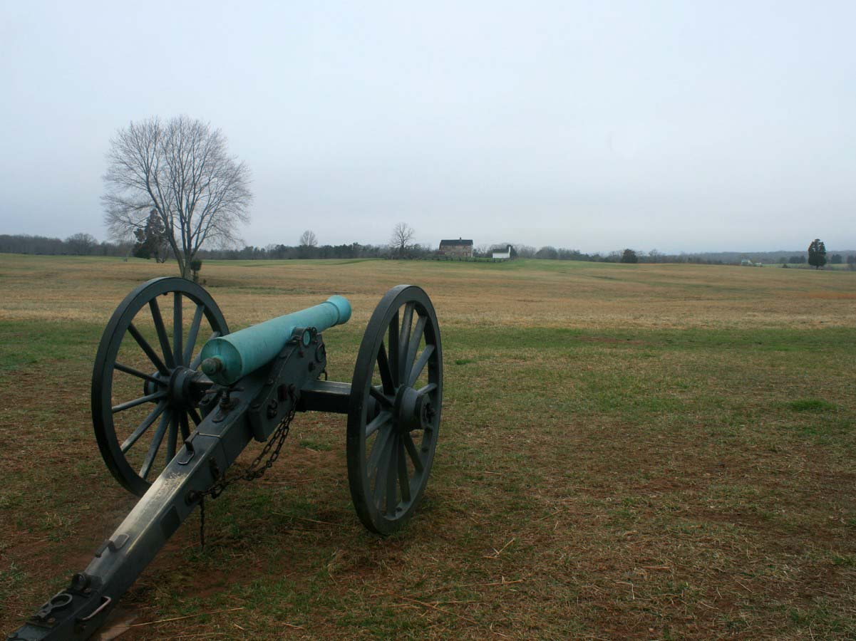 Manassas, Henry House Hill, Jackson's canon